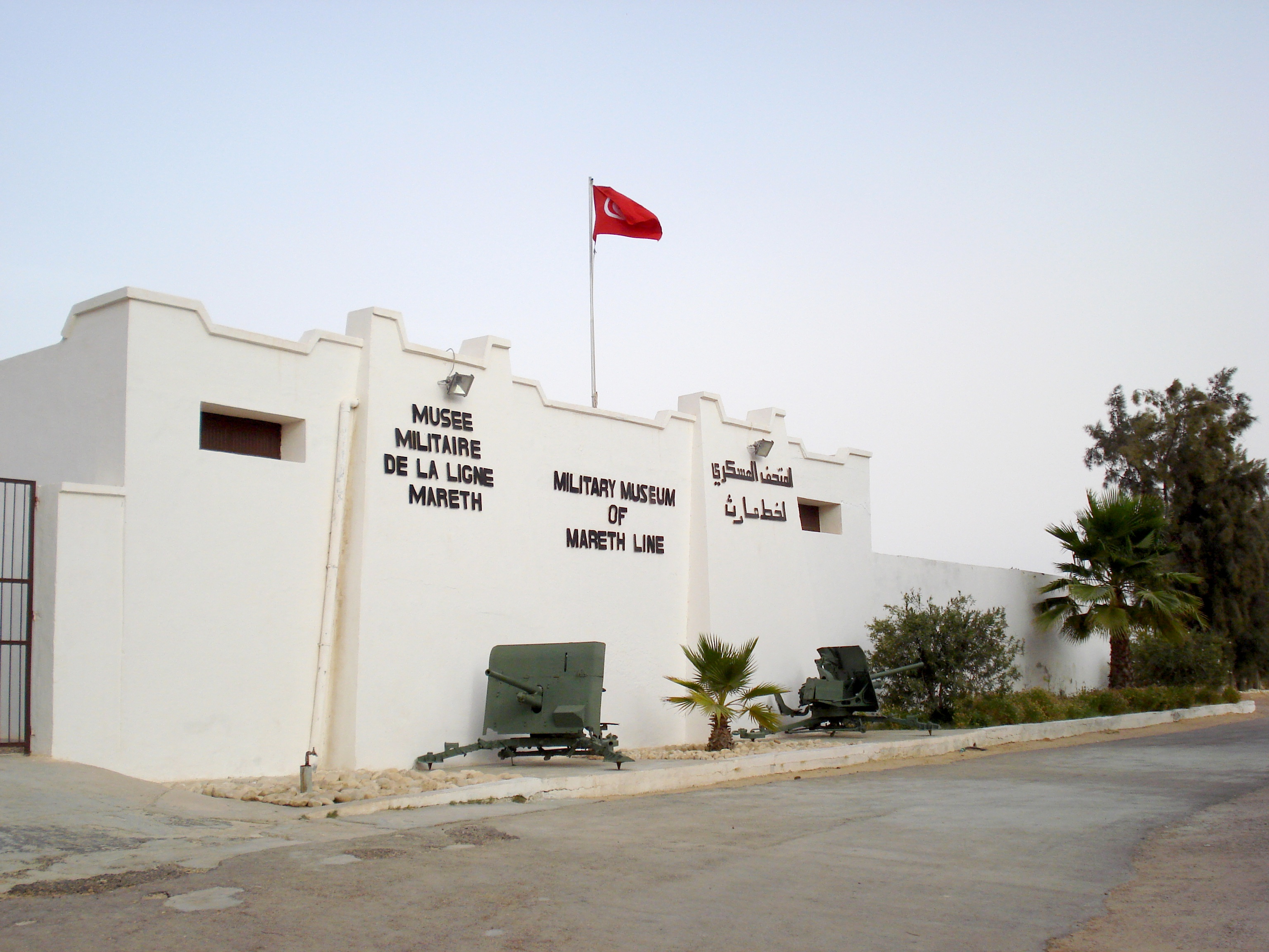 The Military Museum of Mareth Line in Tunisia